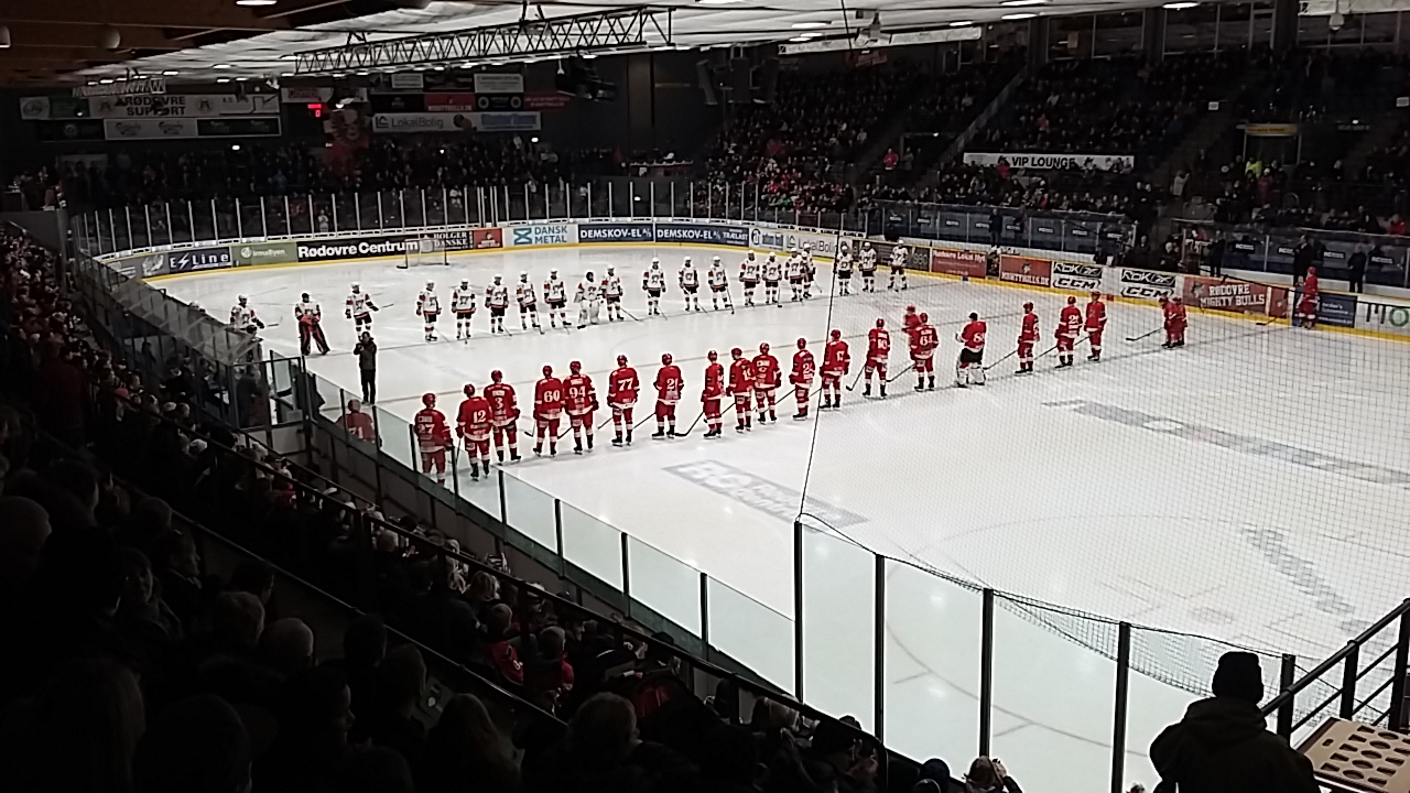 Gentofte Stars and Rødovre Mighty Bulls players lining up for presentation before the Metal Liga game in Rødovre on 2016-01-31.